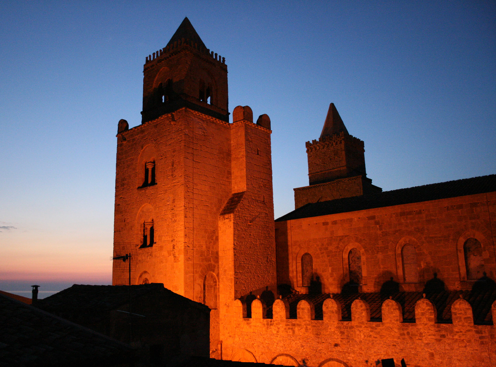 Cefalù cathedral at night